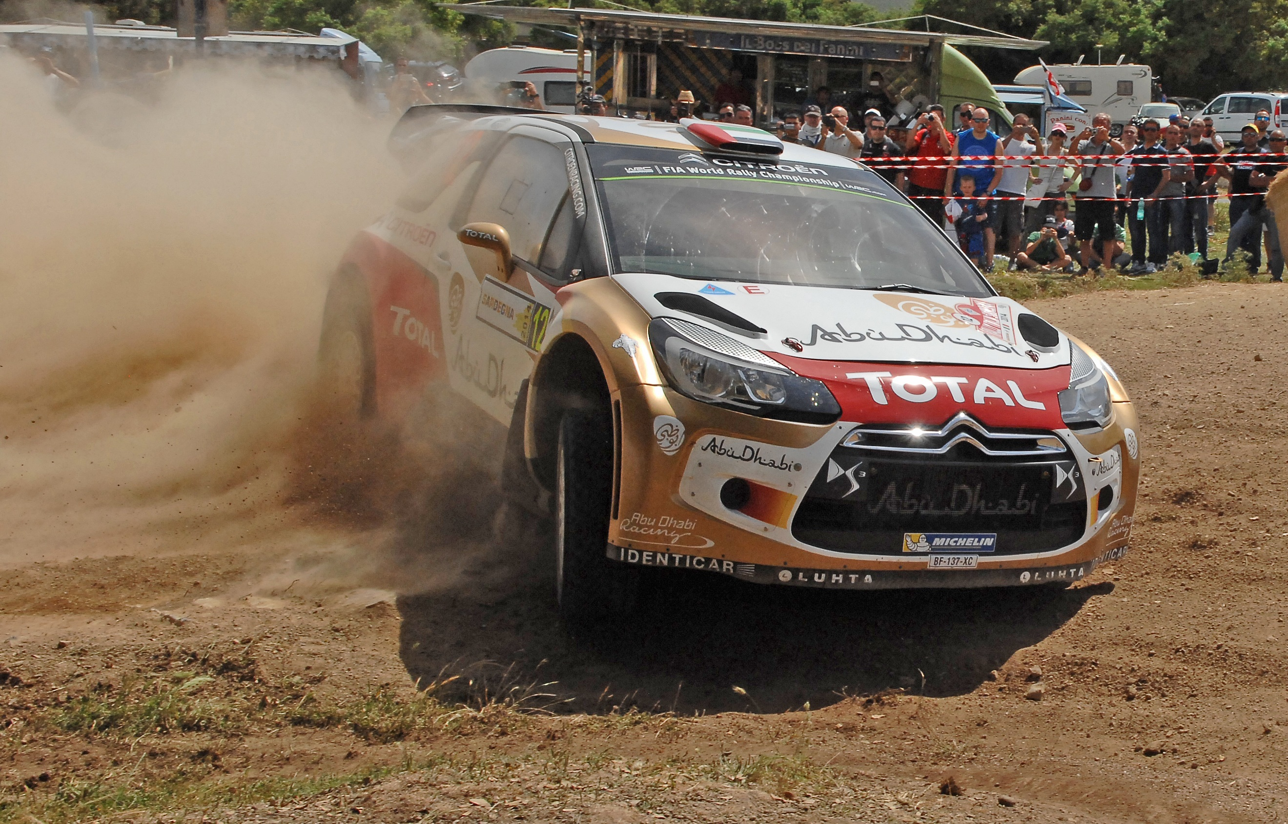 2014 Rally d'Italia Sardegna Khalid Al Qassimi